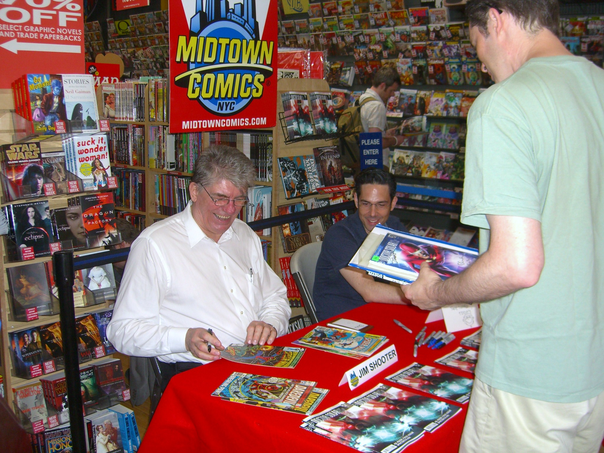 Writer Jim Shooter (left) and artist Dennis Calero (right) at a signing for Dark Horse Comics’ Doctor Solar, Man of the Atom at Midtown Comics Times Square in Manhattan, July 17, 2010. Photo by Luigi Novi. This photo may be used, modified and published for any purpose, only if the photographer is visibly credited in each instance in which it is used. (See licensing information below.) For more information on my photos, you can contact me here.